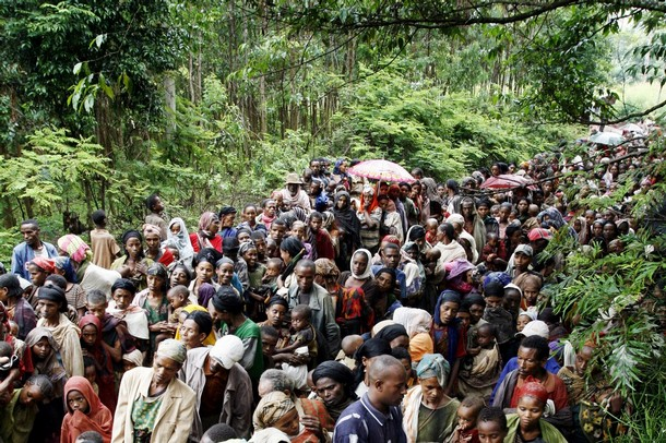 A gathering of people in an African country.